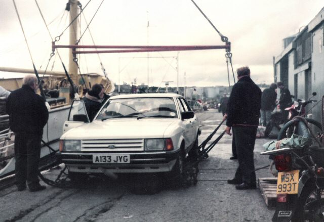 Kirkwall Quay A car being loaded onto the MV Syllingar. The service operated by Viking Island Ferries only operated for the one season. It was capable of carrying 300 passengers and 14 cars, but was not a RORO so cars had to be lifted into the hold. It sailed from Kirkwall to Scalloway via Westray. The MV Syllingar was previously the Scillonian II and a full history of the ship can be found at